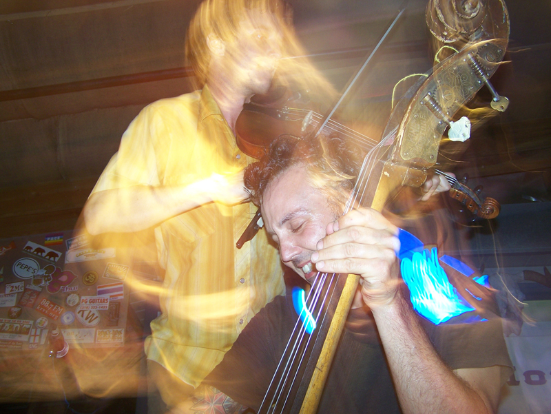 Alan Lafleur and the Lost Bayou Ramblers playing at the Blue Moon Saloon in Lafayette, Louisiana.